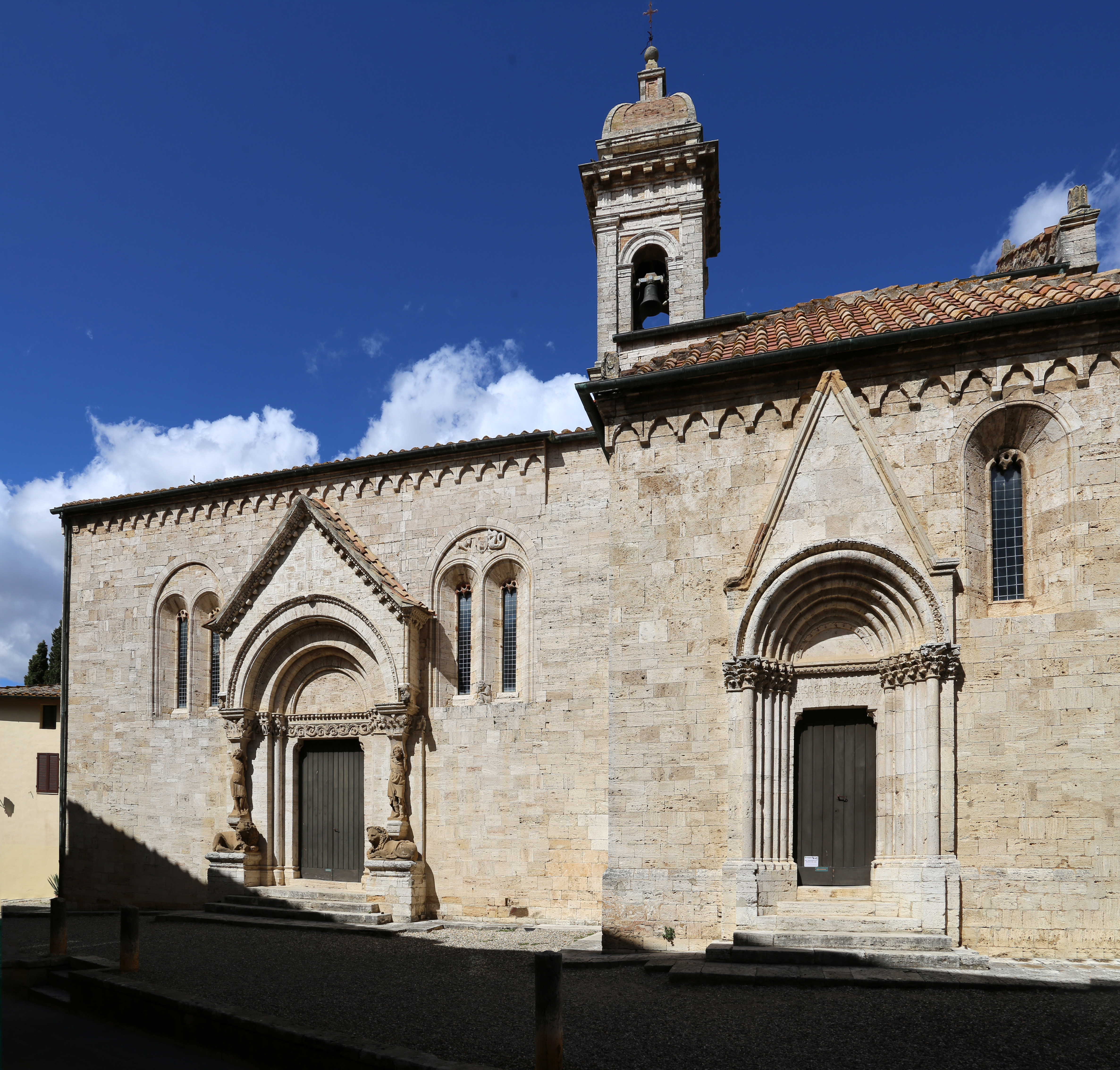 Collegiata di San Quirico d'Orcia